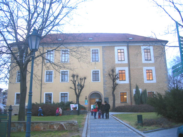 Castle ernestinum in Příbram, Czech Republic, František Drtikol Gallery